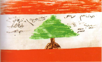 First hand drawn flag of Lebanon. Flag as drawn and approved by the members of the Lebanese Parliament during the declaration of independence in 1943.